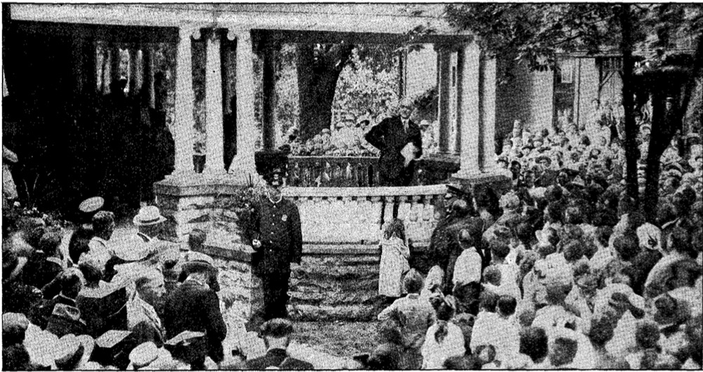 The Republican presidential candidate, Warren G. Harding, accepts the nomination of his party from his front porch, Jully 22, 1920